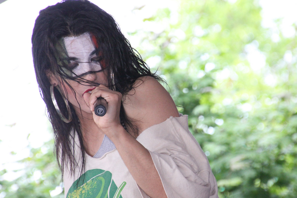 A beautiful lass with chonga style earings and top, at the Latino Gay Pride. July 17, 2011, Portland, Oregon. Pic taken by Marty Davis / Just Out